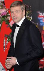 Dmitry Rybolovlev.